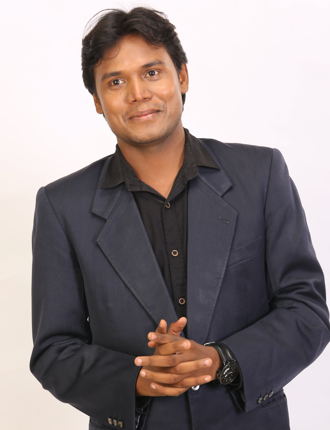 Attending a seminar